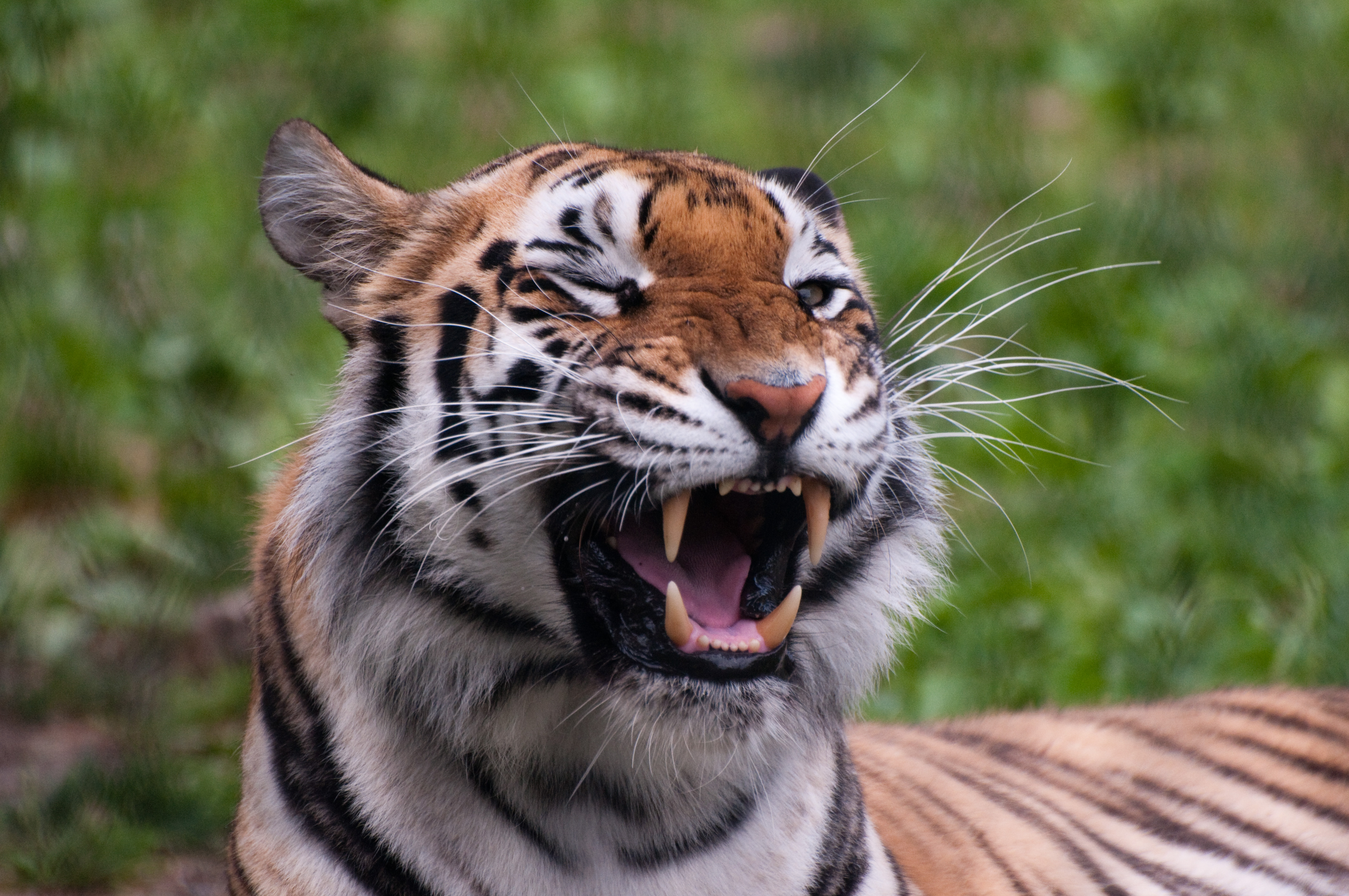 A Tiger at Franklin Park Zoo, Massachusetts, USA.